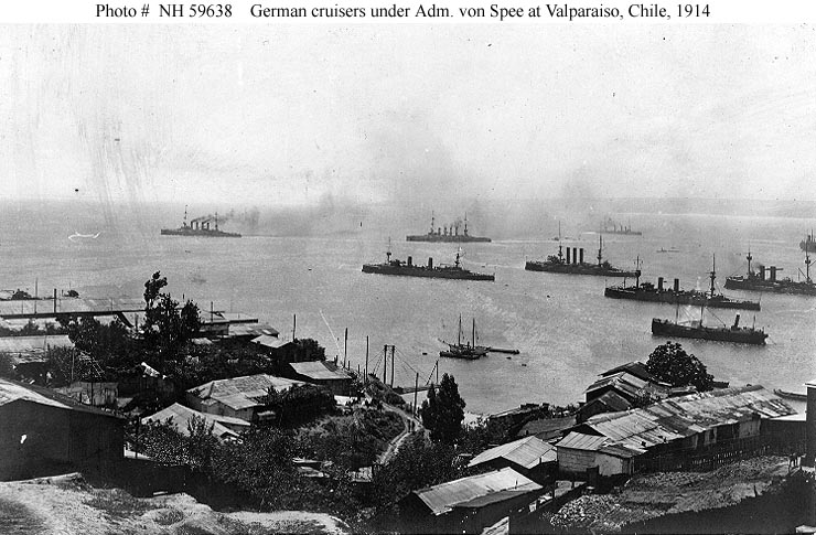 German Vice Admiral von Spee's cruiser squadron Leaving Valparaiso, Chile, circa 3 November 1914, following the Battle of Coronel. The German ships are in the distance, with the armored cruisers Scharnhorst and Gneisenau in the lead, followed by light cruiser Nürnberg. Chilean Navy warships in the middle distance include (from left to right): cruisers Esmeralda, O'Higgins and Blanco Encalda and old battleship Capitan Prat.